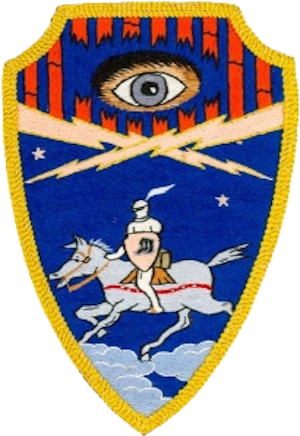 6091st Reconnaissnce Squadron - Emblem